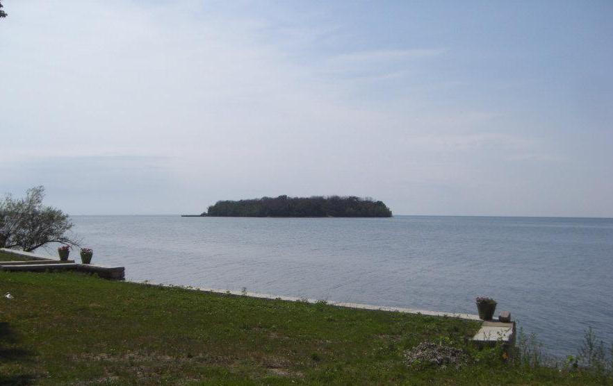 Sugar Island as viewed from Middle Bass Island. Other information Cropped from original.